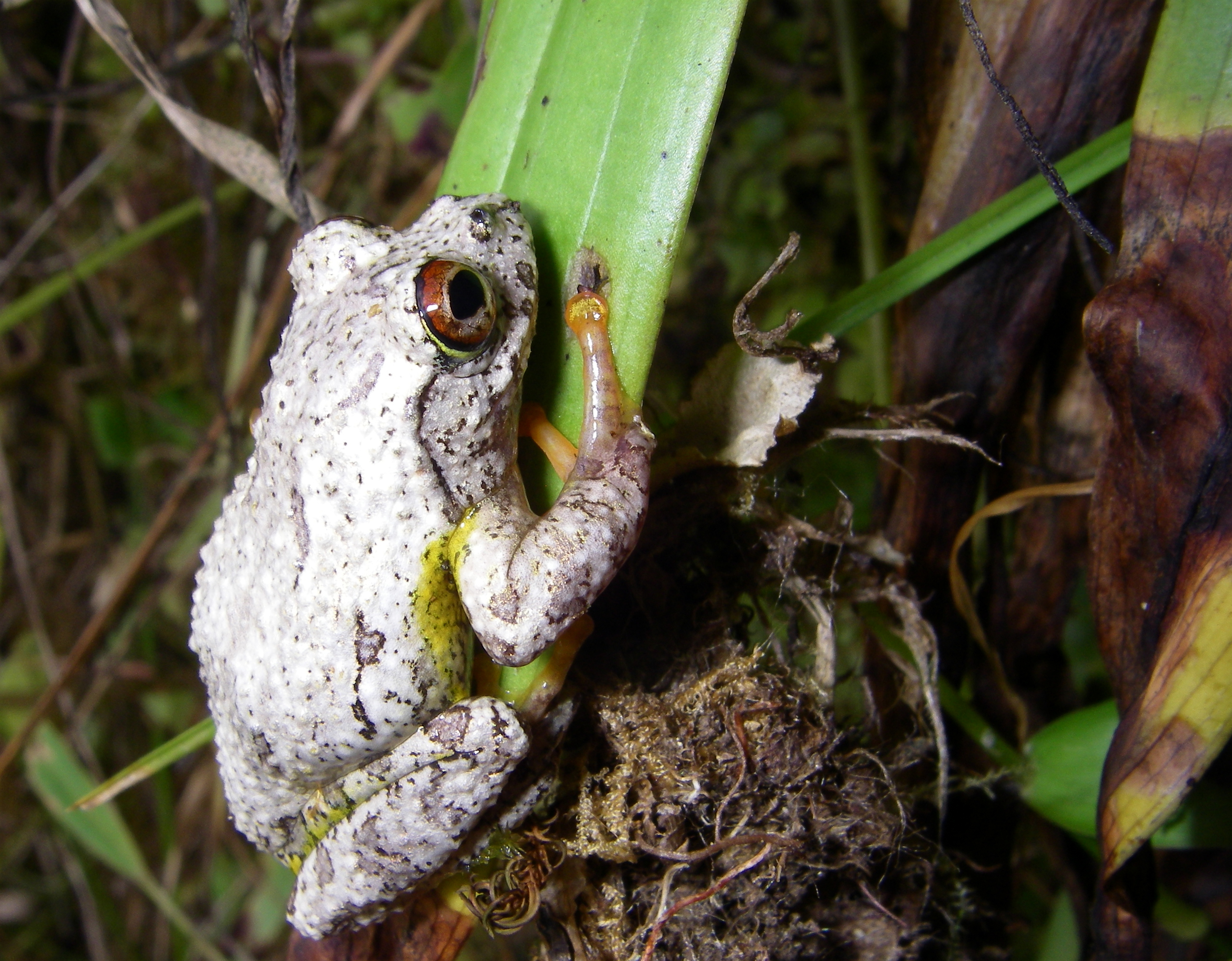 Boophis guibei; Road between Ranomafana and Ambohitsara, sitting on vegetation 2m above waterfilled ditch